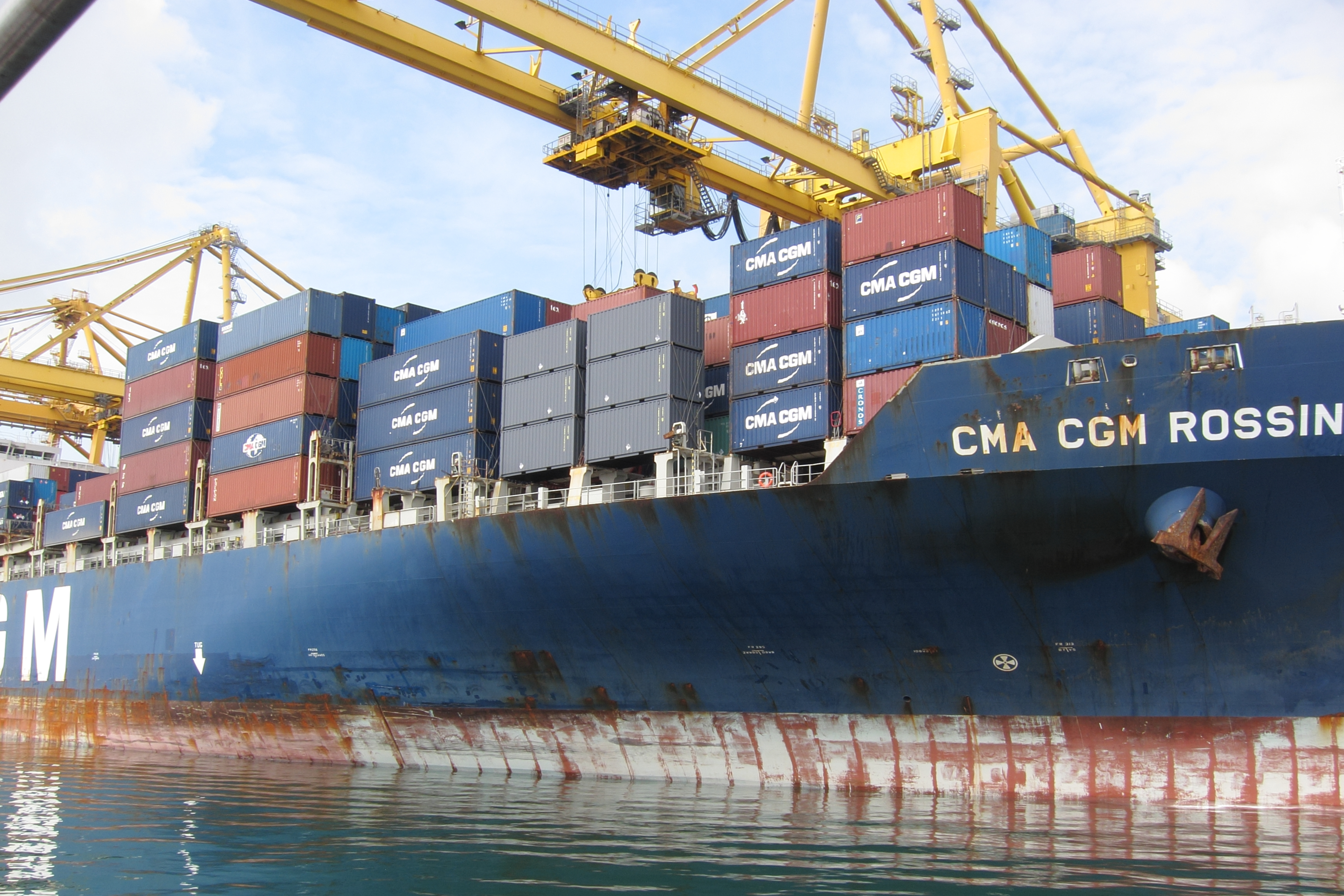 CMA CGM Rossini